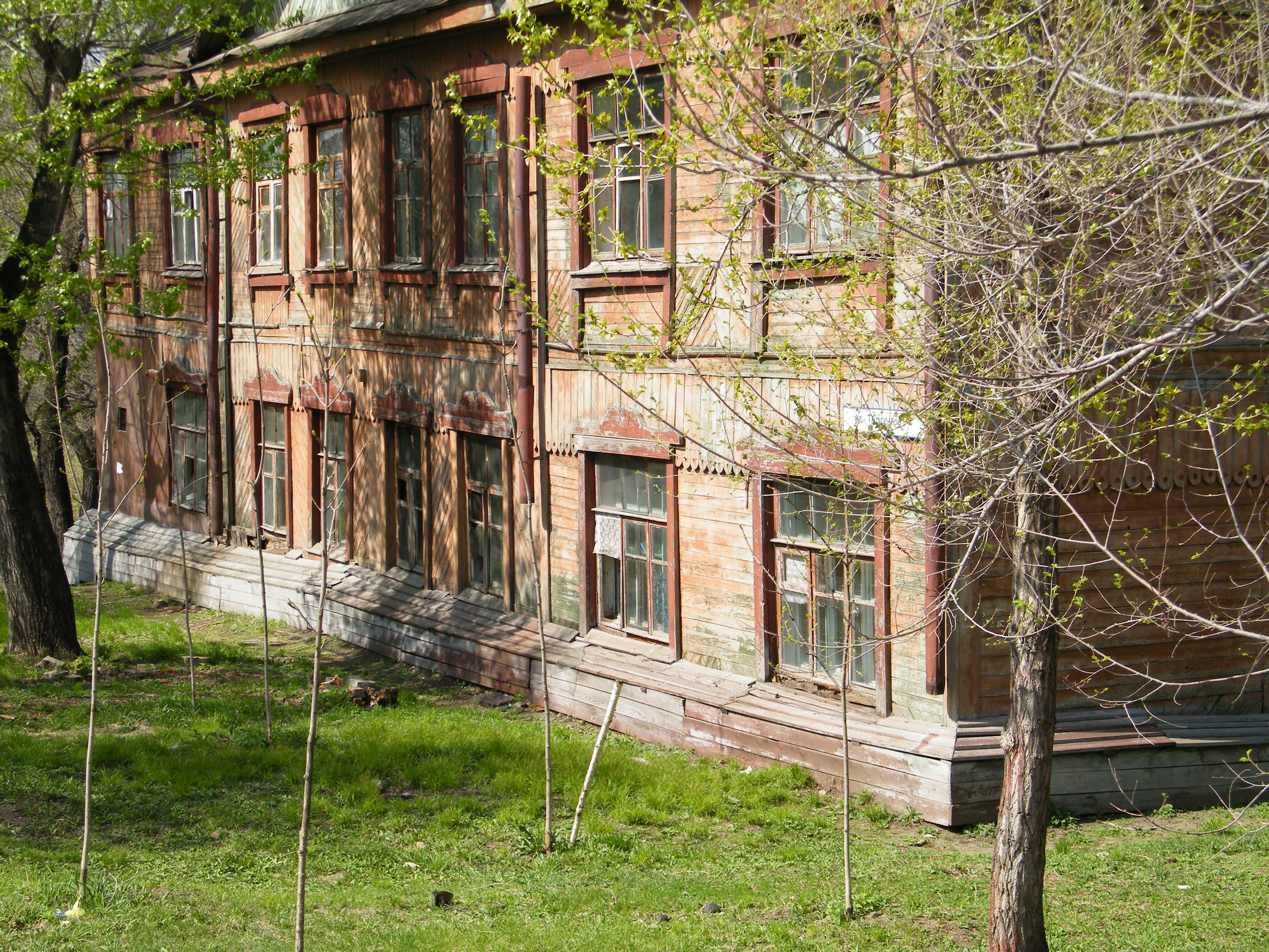 Buildings in Khabarovsk